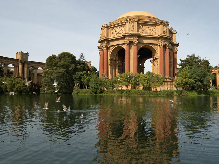 Public domain photo from